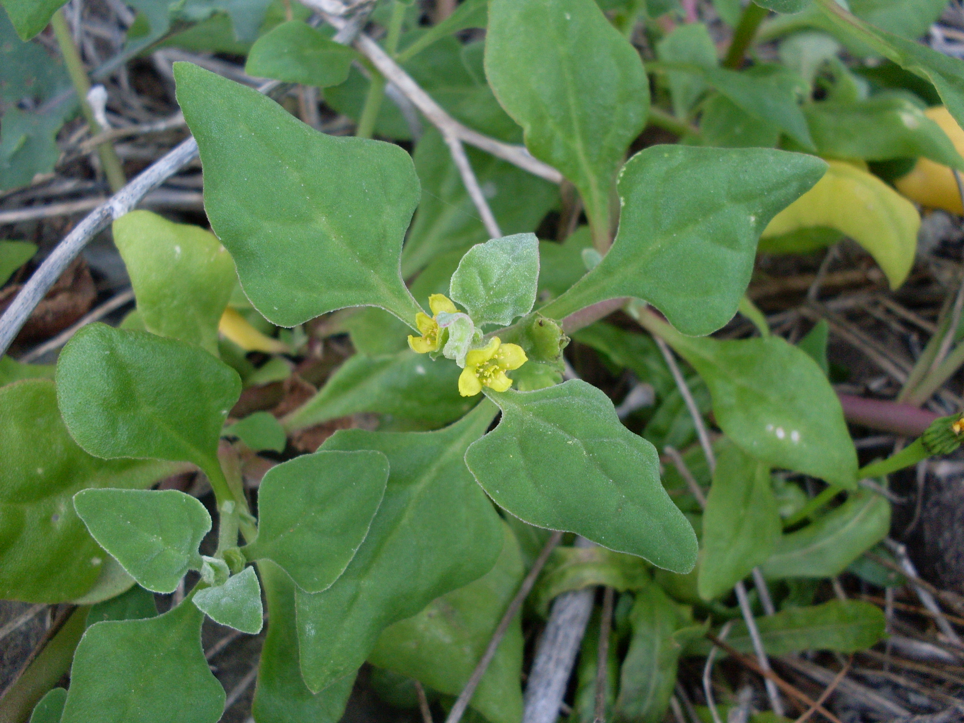 New Zealand spinach (Tetragonia tetragonioides) in flower. Gerroa, NSW Australia, March 2009.